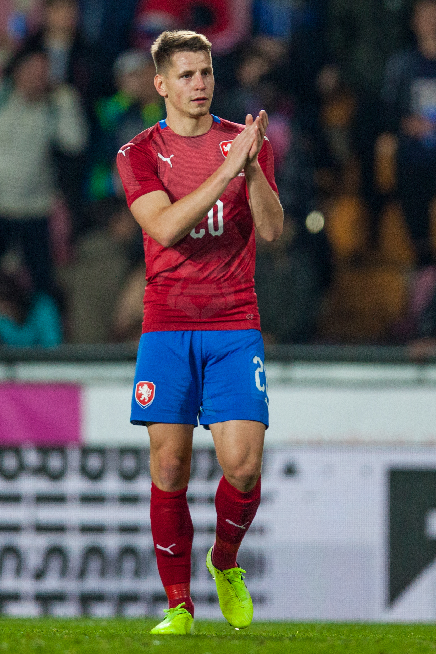 Lukáš Masopust in an international friendly match between Czech Republic and Northern Ireland (2:3), Stadion Letná (Prague) 2019-10-14 The making of this work was supported by Wikimedia Austria. For other files made with the support of Wikimedia Austria, please see the category Supported by Wikimedia Österreich. Personality rights warningAlthough this work is freely licensed or in the public domain, the person(s) shown may have rights that legally restrict certain re-uses unless those depicted consent to such uses. In these cases, a model release or other evidence of consent could protect you from infringement claims.